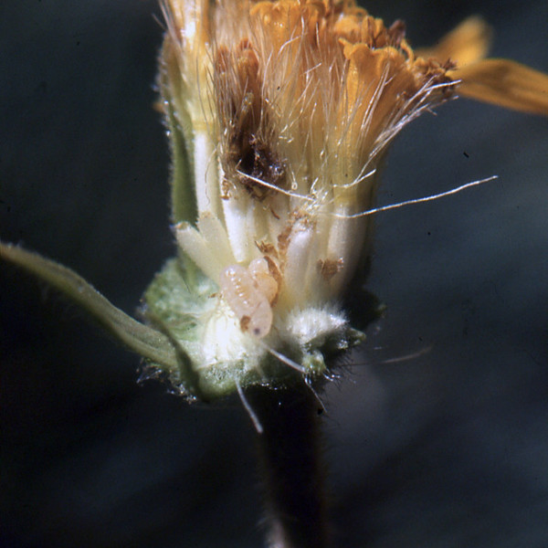 Tephritis arnicae, larva, picture-winged fly in Arnica montana's flower